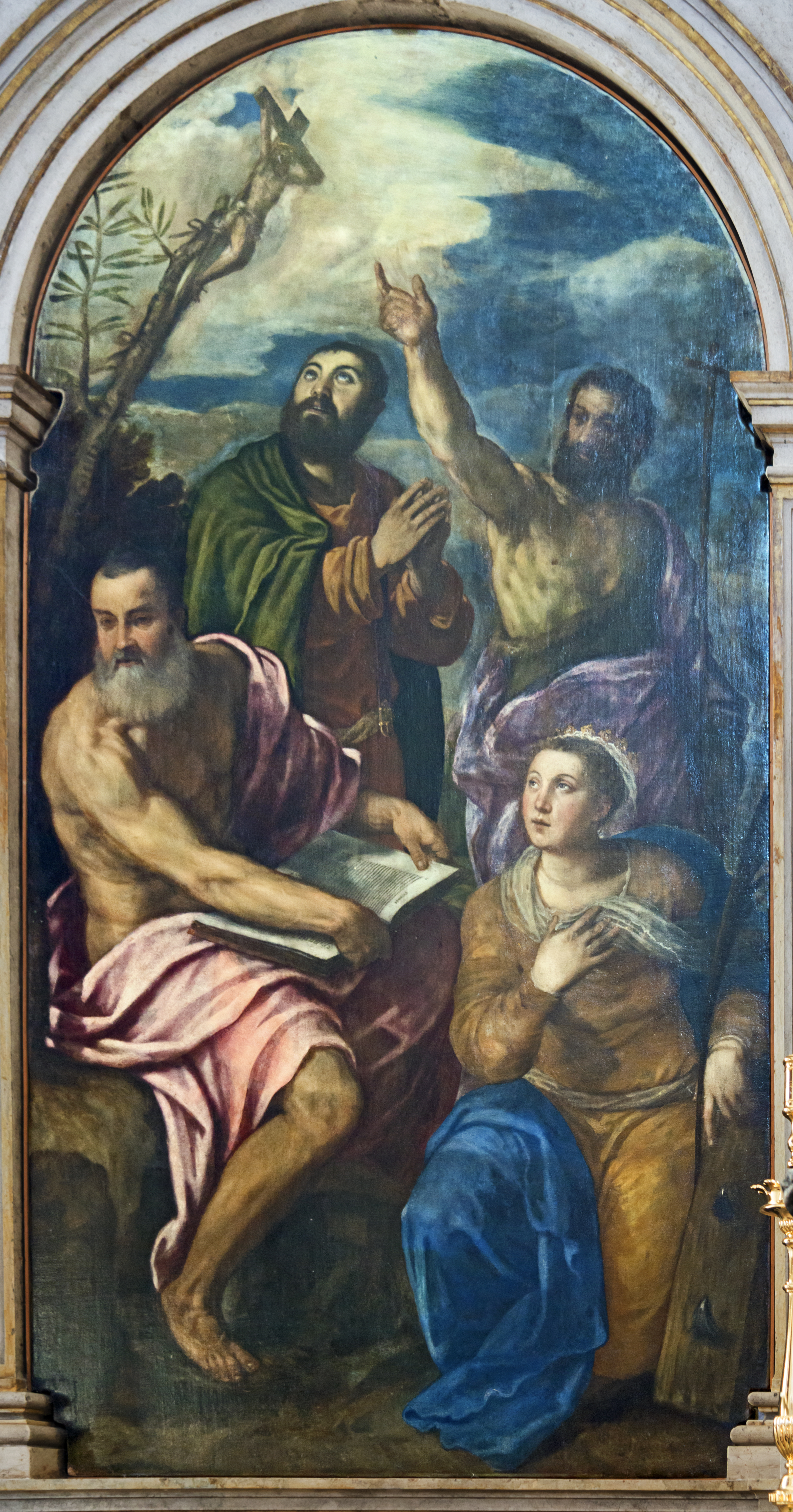 Cappella Bragadin of San Francesco della Vigna (Venice). Painting of the altarpiece : "Catherine of Alexandria with Saints Jerome, John the Baptist, James the Apostle" by Giuseppe Porta said "Il Salviati". Oil on canvas.